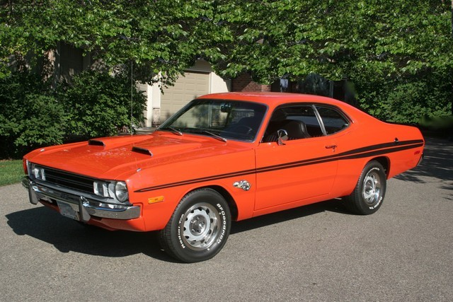 1973 Dodge (Mexican) Super Bee [In Mexico, Dodge Darts and Aspens were called "Super Bees", only a few were produced.]